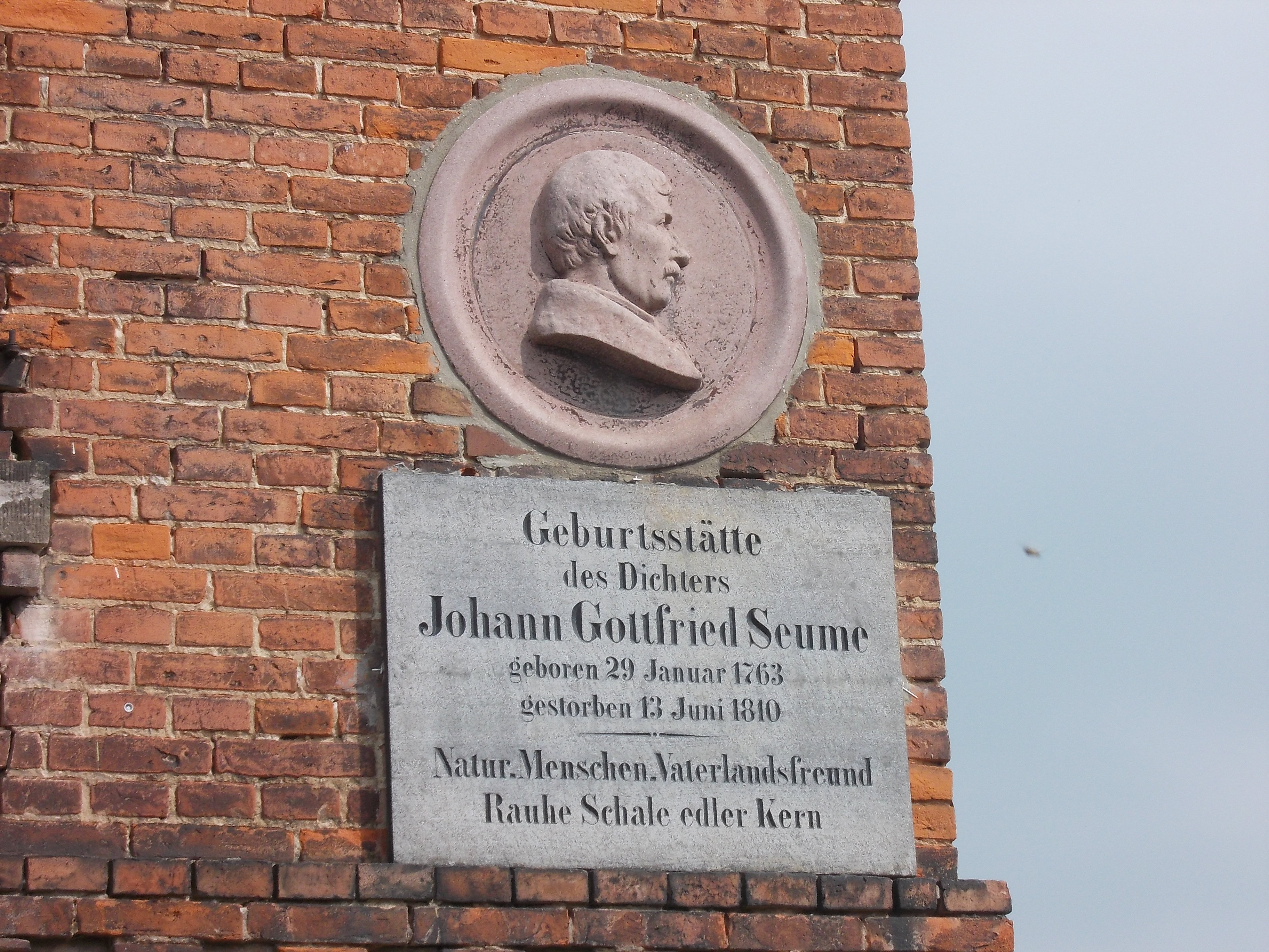 Plaque on the successor to the house where Johann Gottfried Seume was born, in Poserna (Lützen, district: Burgenlandkreis, Saxony-Anhalt)